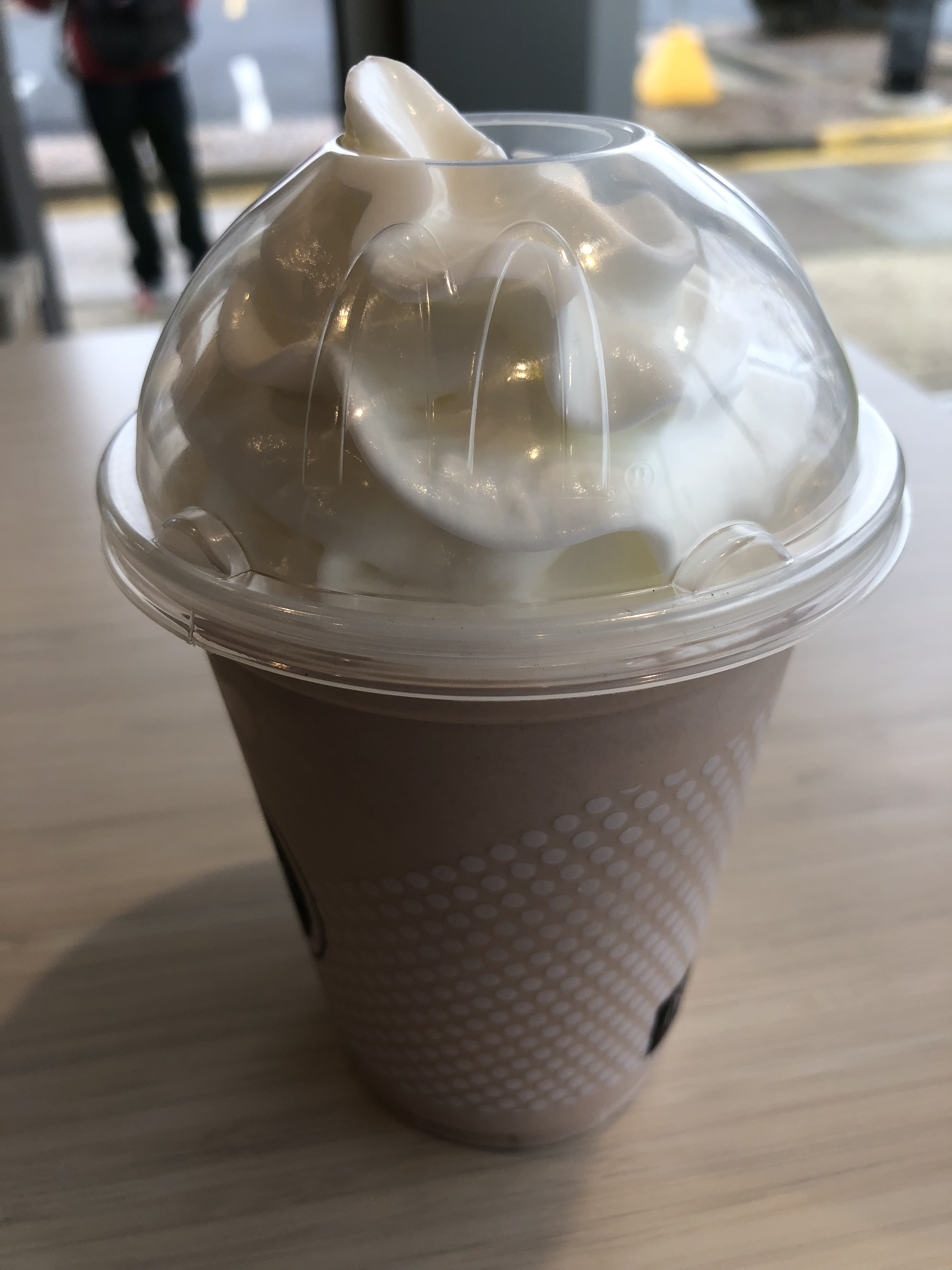 A McDonald's chocolate milkshake with whipped cream on top in Chantilly, Fairfax County, Virginia